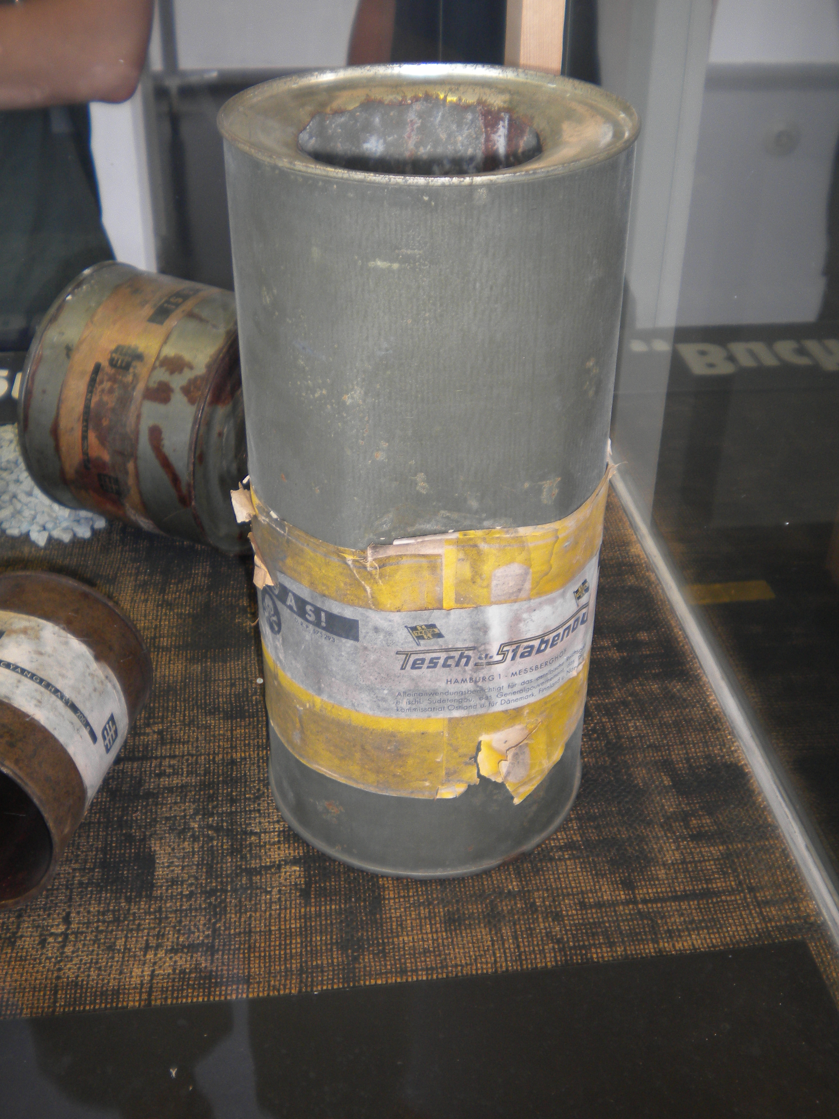 Zyklon B Gasbehälter der Firma Tesch & Stabenow